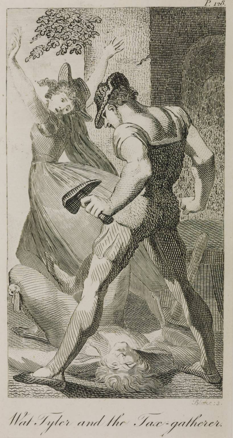 William Blake after Henry Fuseli Wat Tyler and the Tax-Gatherer 1797 published 1798 Tate Gallery